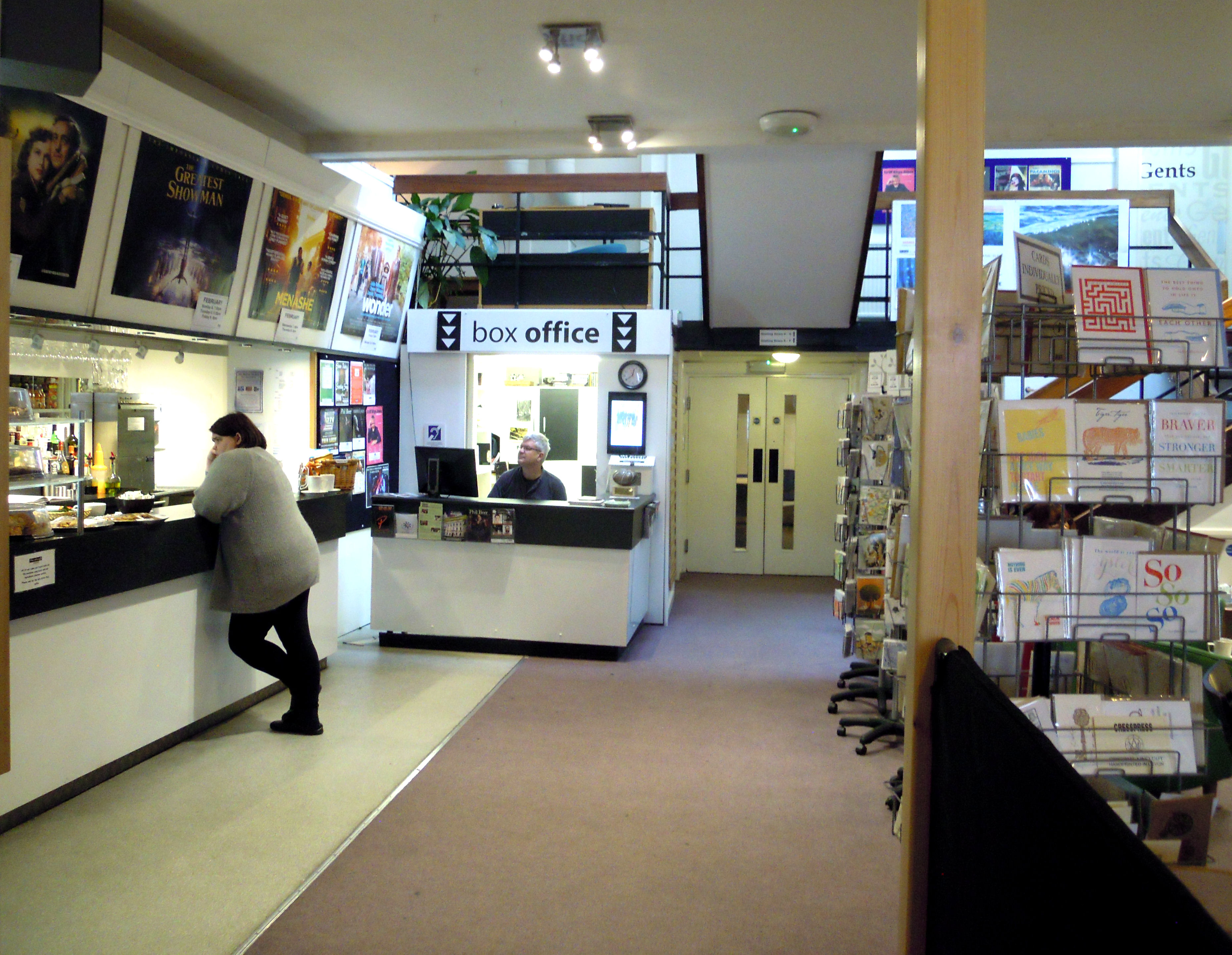 The Box Office at The Plough Arts Centre in Great Torrington in Devon